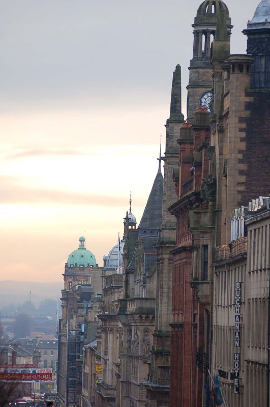 Photograph of architecture on Buchanan Street, Glasgow.